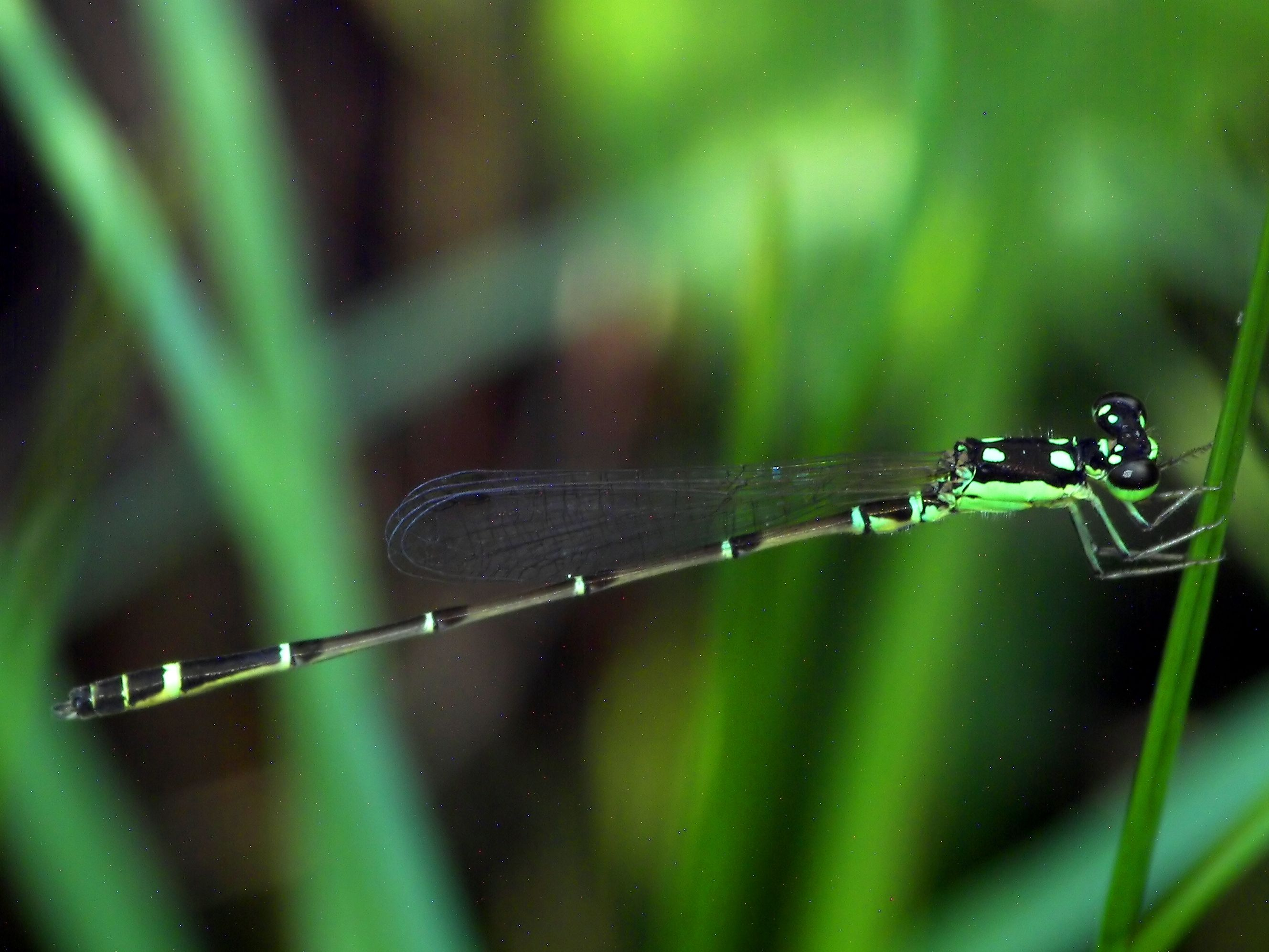 Mortonagrion hirosei, male at fish ponds in Mong Tseng Tsuen, New Territories, Hong Kong.